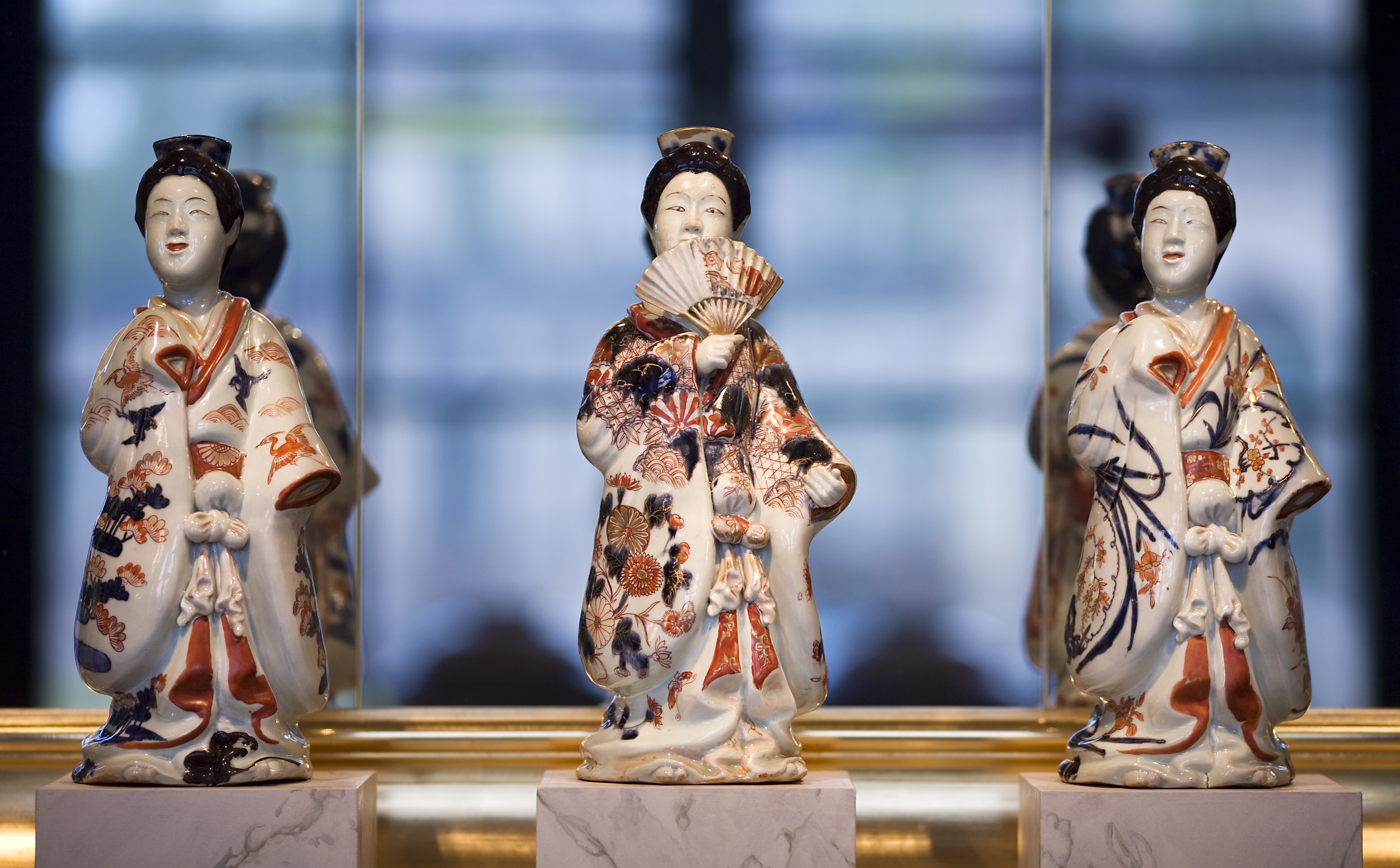 Japanese Ladies on Imari porcelain, Porcelain Museum in the Art Collection Dresdner Zwinger, Dresden, Germany